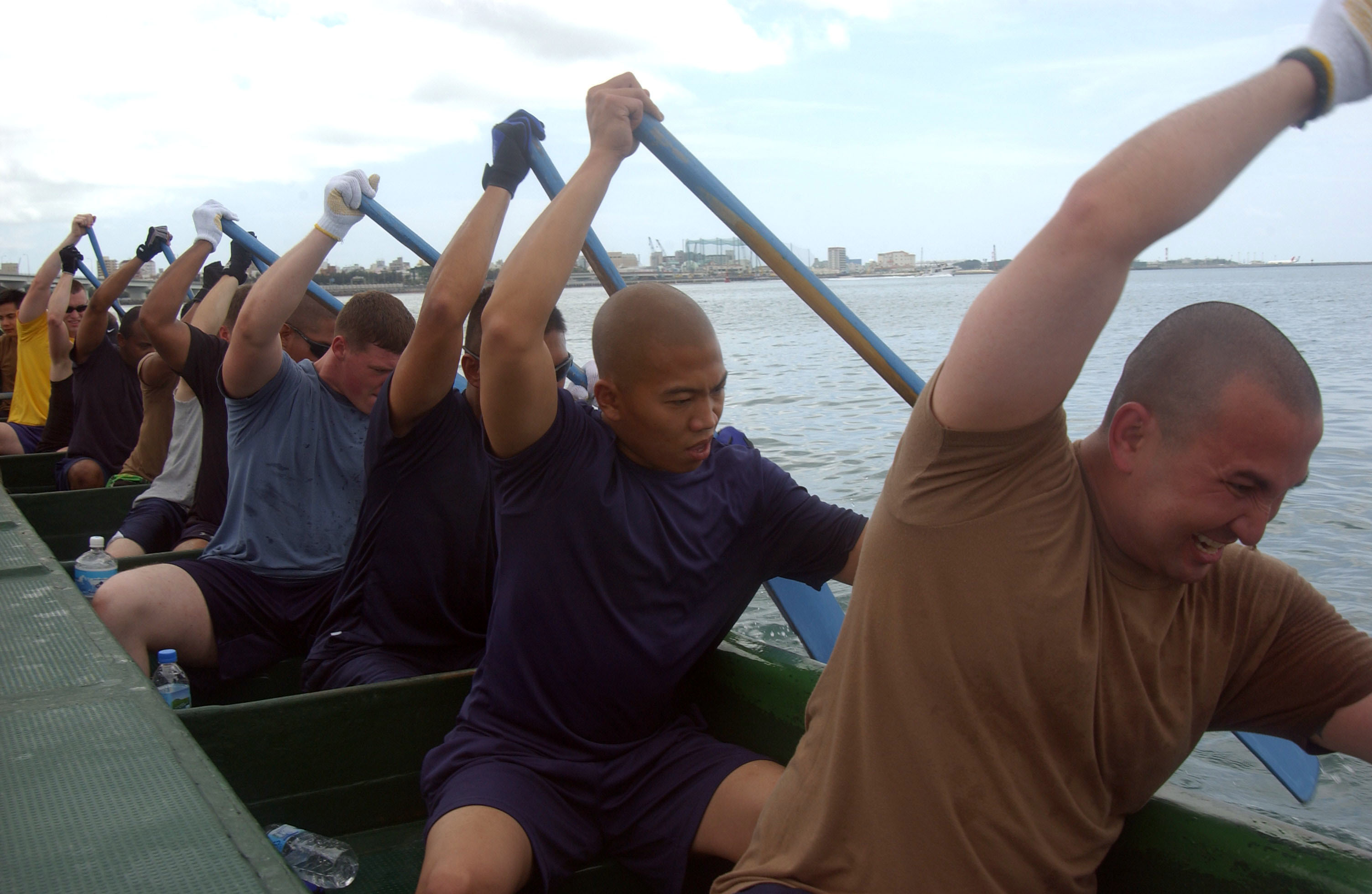 OKINAWA, Japan (April 25, 2007) - Personnel Specialist 1st Class Omar Saliba and Hospital Corpsman 1st Class Ryan De La Cruz lead the men’s Navy rowing team during a dragon boat practice in the port of Naha City, Okinawa. Twenty-six Seabees from Naval Mobile Construction Battalion (NMCB) 3 have joined the Navy dragon boat race team, which will compete in the annual Naha Hari Dragon Boat races May 5. Seabees from NMCB 3 are on deployment in support of construction operations and the global war on terrorism. U.S. Navy photo by Mass Communication Specialist 2nd Class Dustin Coveny (RELEASED)